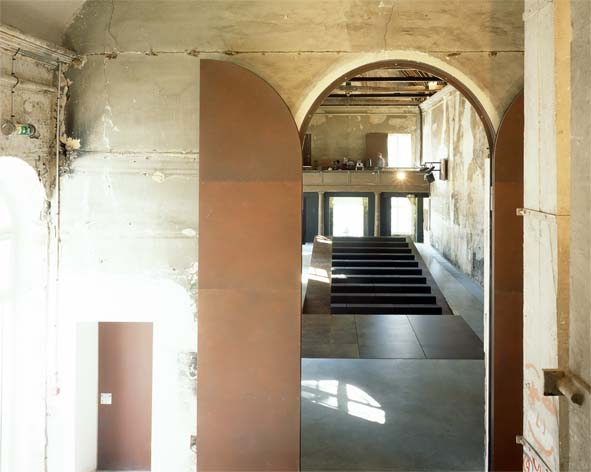 Maison de l'architecture, Chartier-Corbasson architectes, Paris, 2004